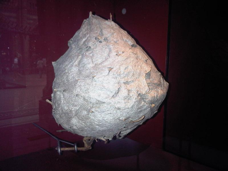 Wasp' nest at the Natural History Museum in London, UK: Pseudopolybia compressa from Brazil.